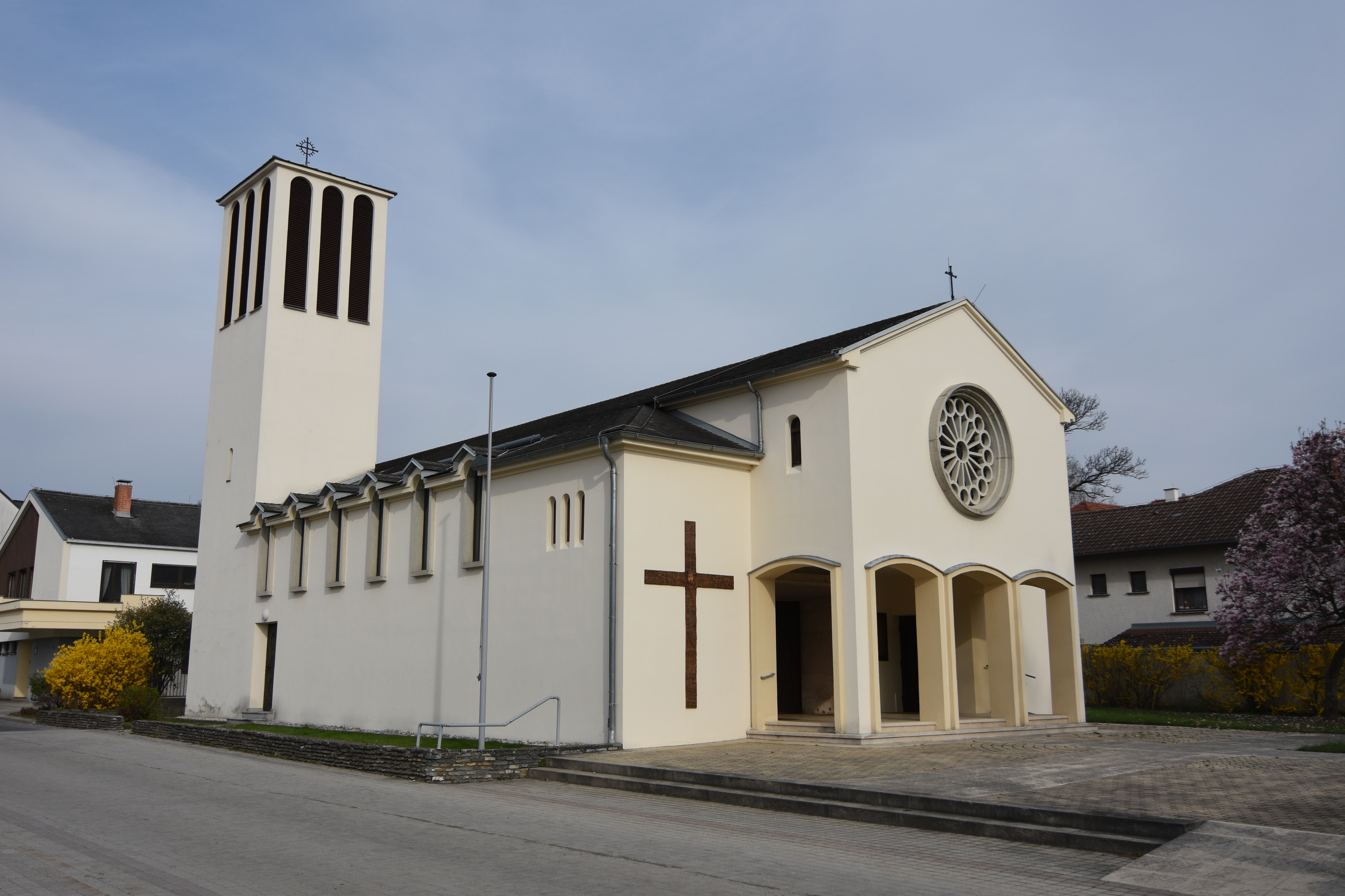 Church Stoob